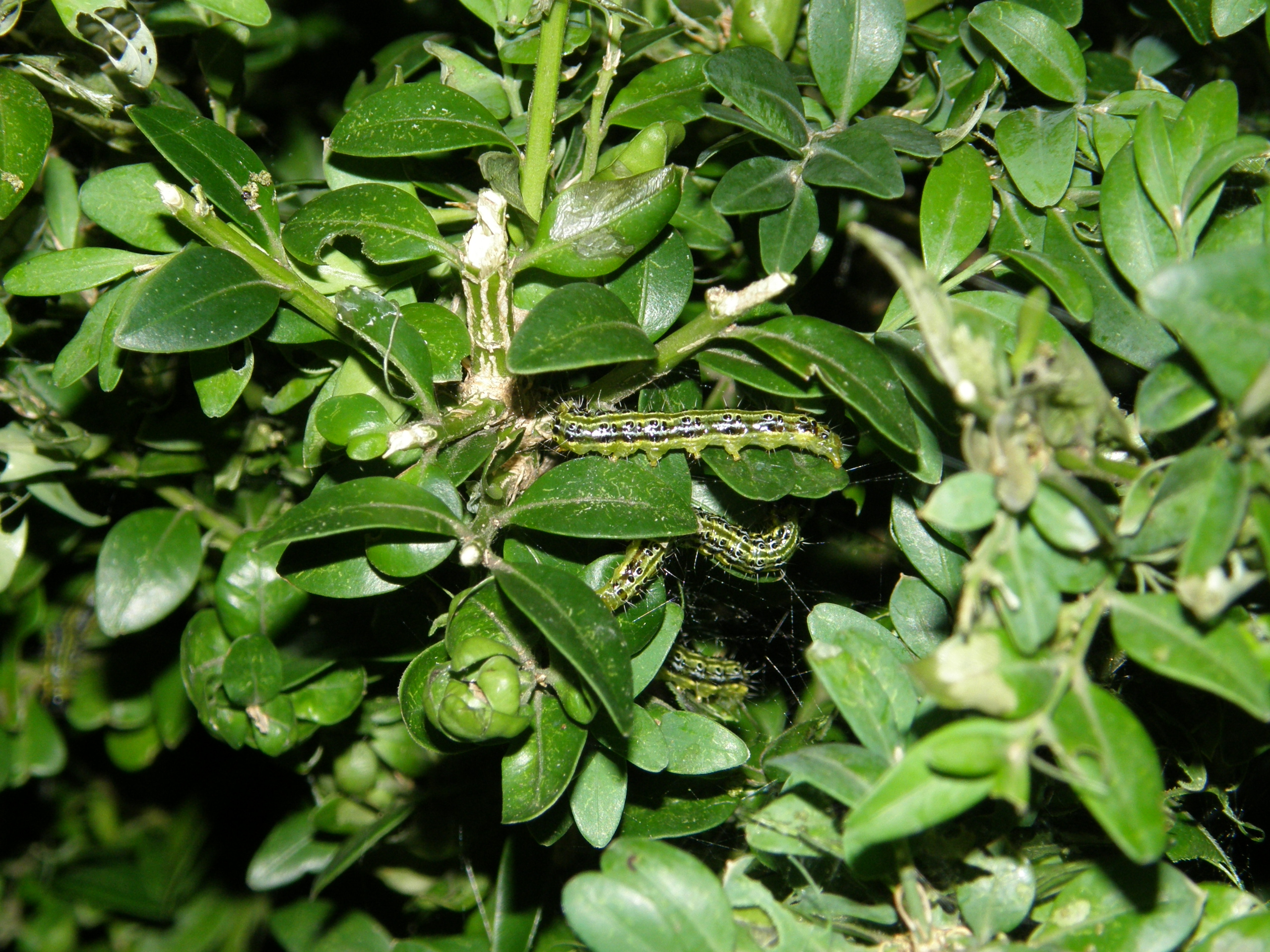 3 BZ